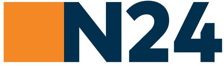 This is the station logo of N24 since September 12th 2016.